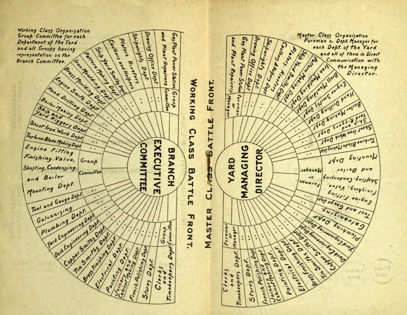 Diagram explaining the principle of industrial unionism in terms of opposing battle fronts of the working and master classes and their organisation within a large factory of the period.